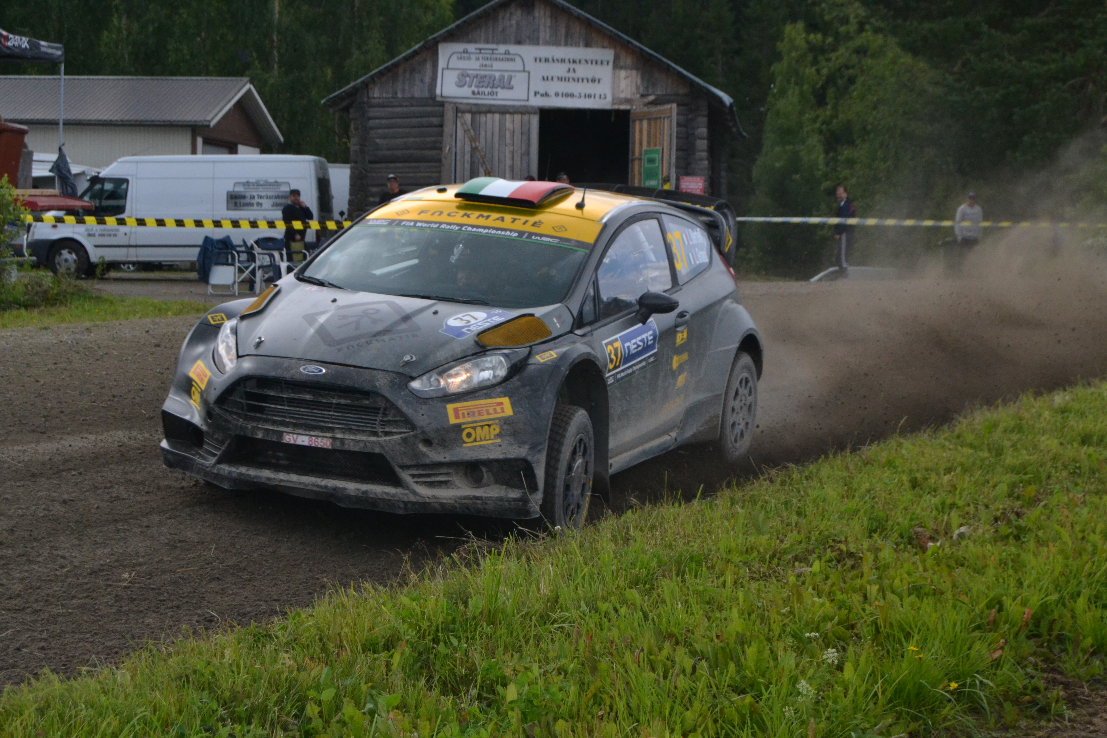 Lorenzo Bertelli at 1st Ouninpohja stage at Rally Finland 2015